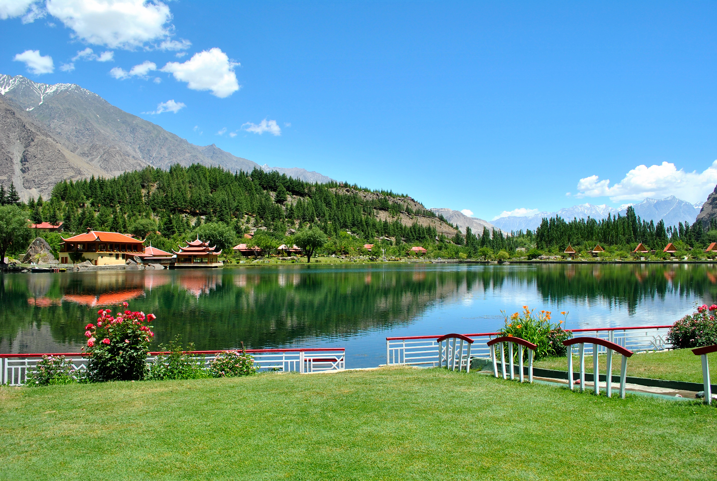 Shangrila Resort at Kachura Lake near Skardu